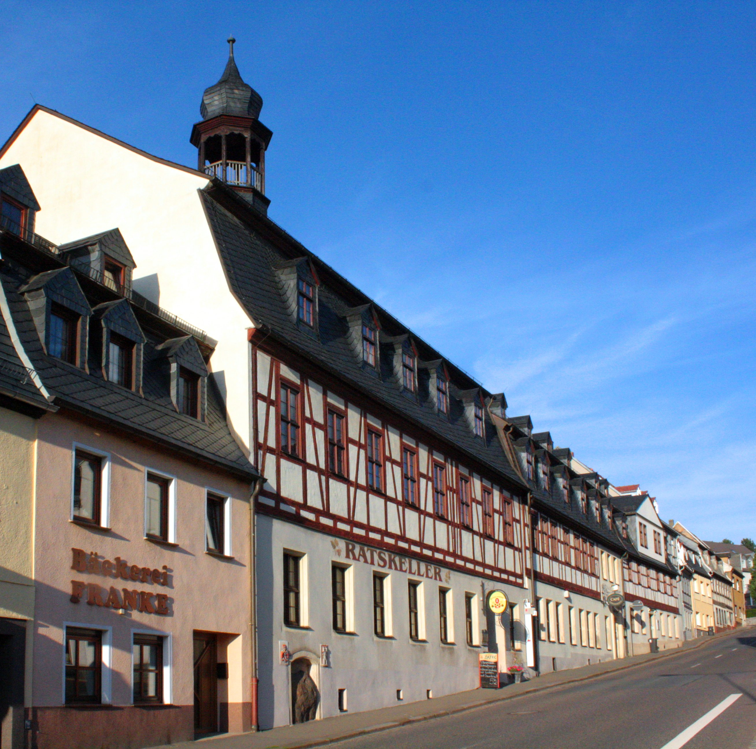 Old town hall in Lichtenstein/Saxony near Chemnitz